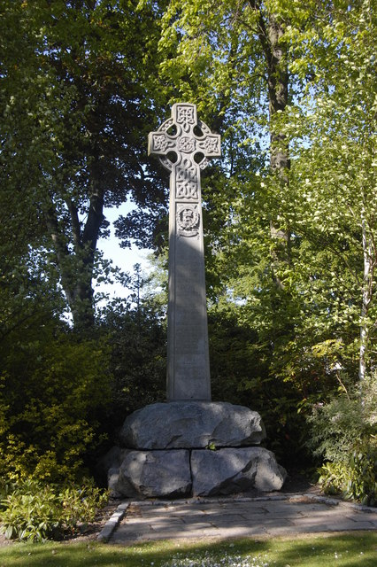 Monument to a forgotten war War memorial to Gordon Highlanders who fell in the 1882 Egyptian Campaign.